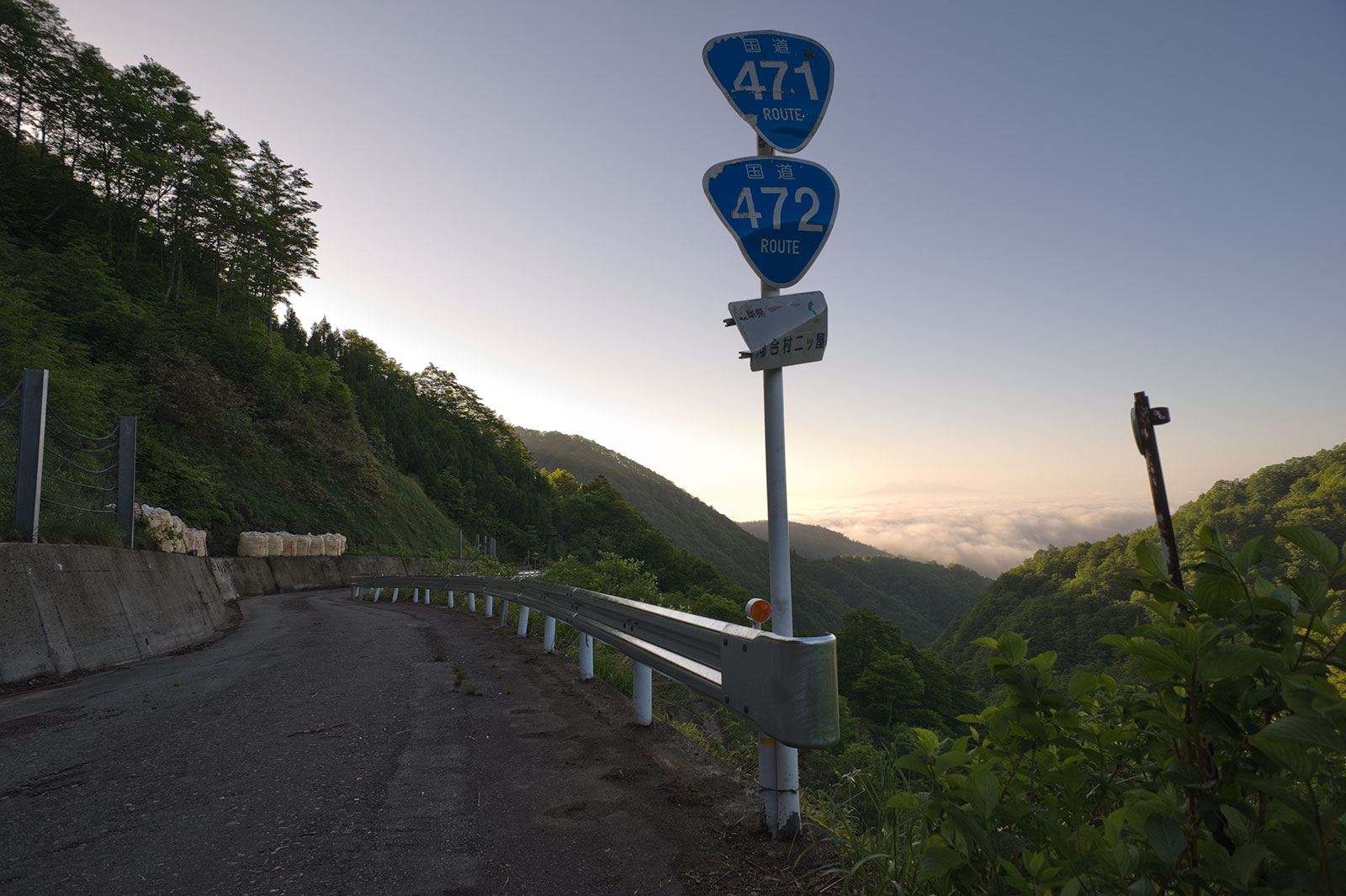 Nara Pass (Nara-toge) on the National Route 471/472, view towards Mount Ontake